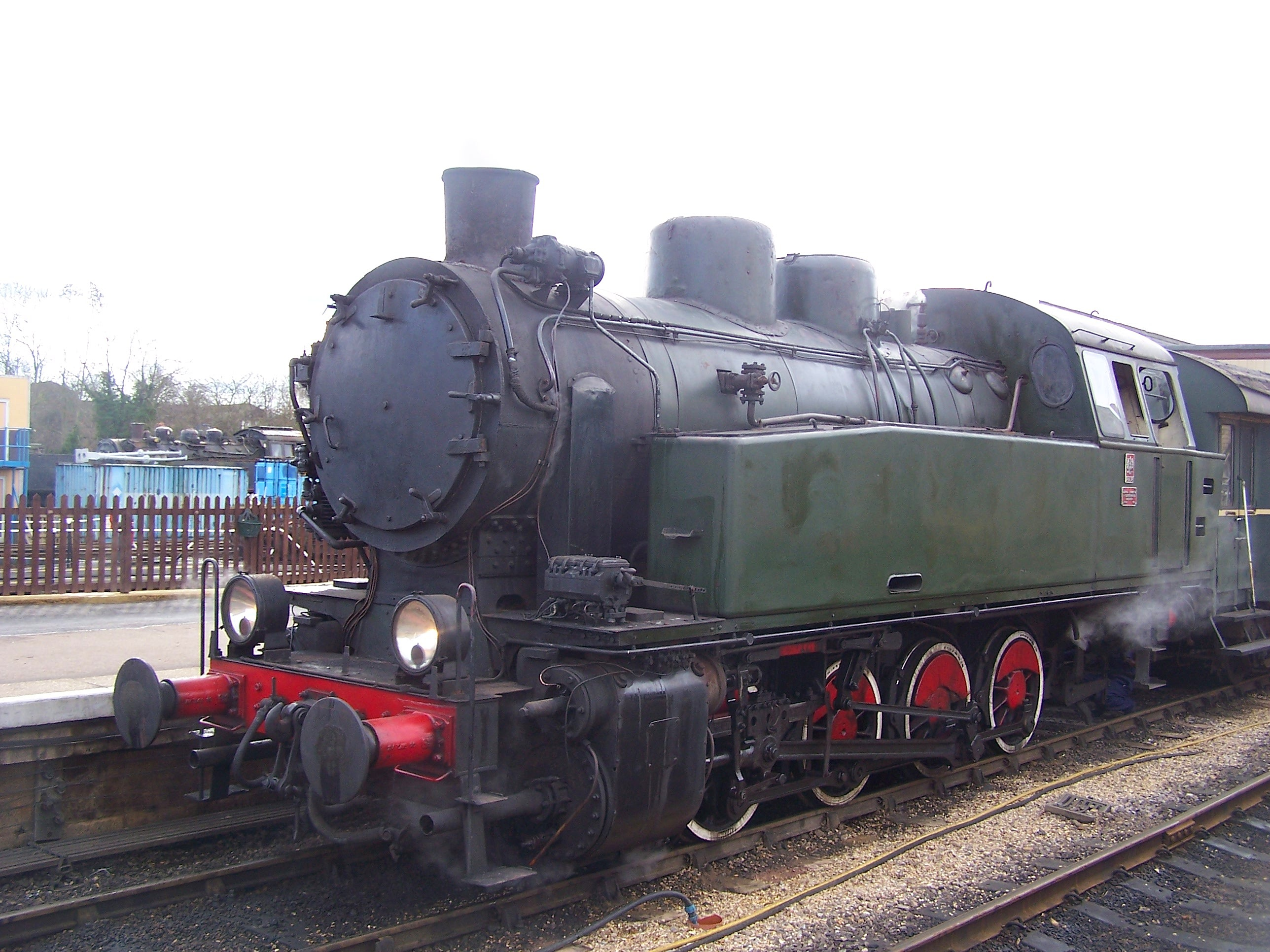 Another view of preserved Polish PKP 0-8-0T Class Slask/TKp No. 5485 in steam at Wansford, on Sunday 25TH February 2007